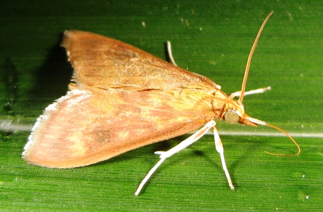 Adult form of Ostrinia furnacalis